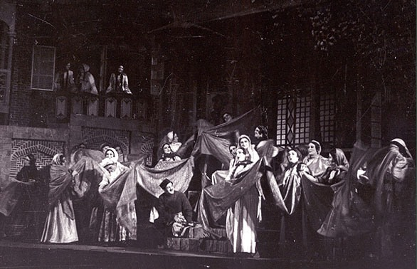 Scene from Arshin mal alan (Decade of Azerbaijani art in Moscow, 1938)